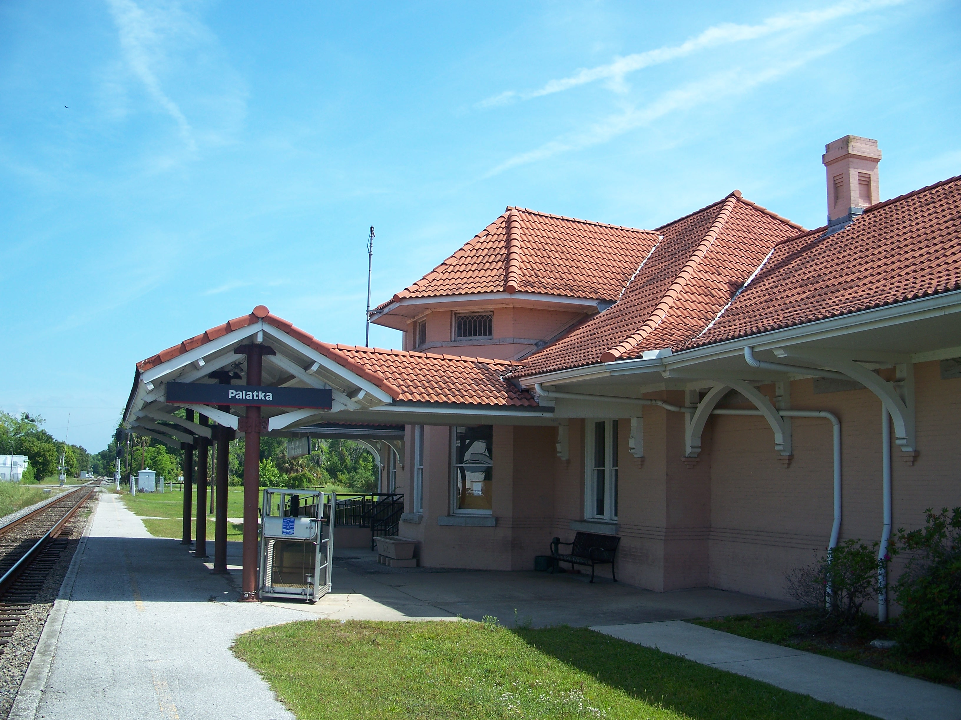 Old Atlantic Coast Line Union Depot, in Palatka, Florida